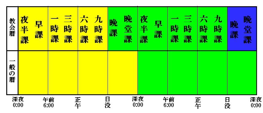 Explanation for Church calendar (Hours) in Japanese